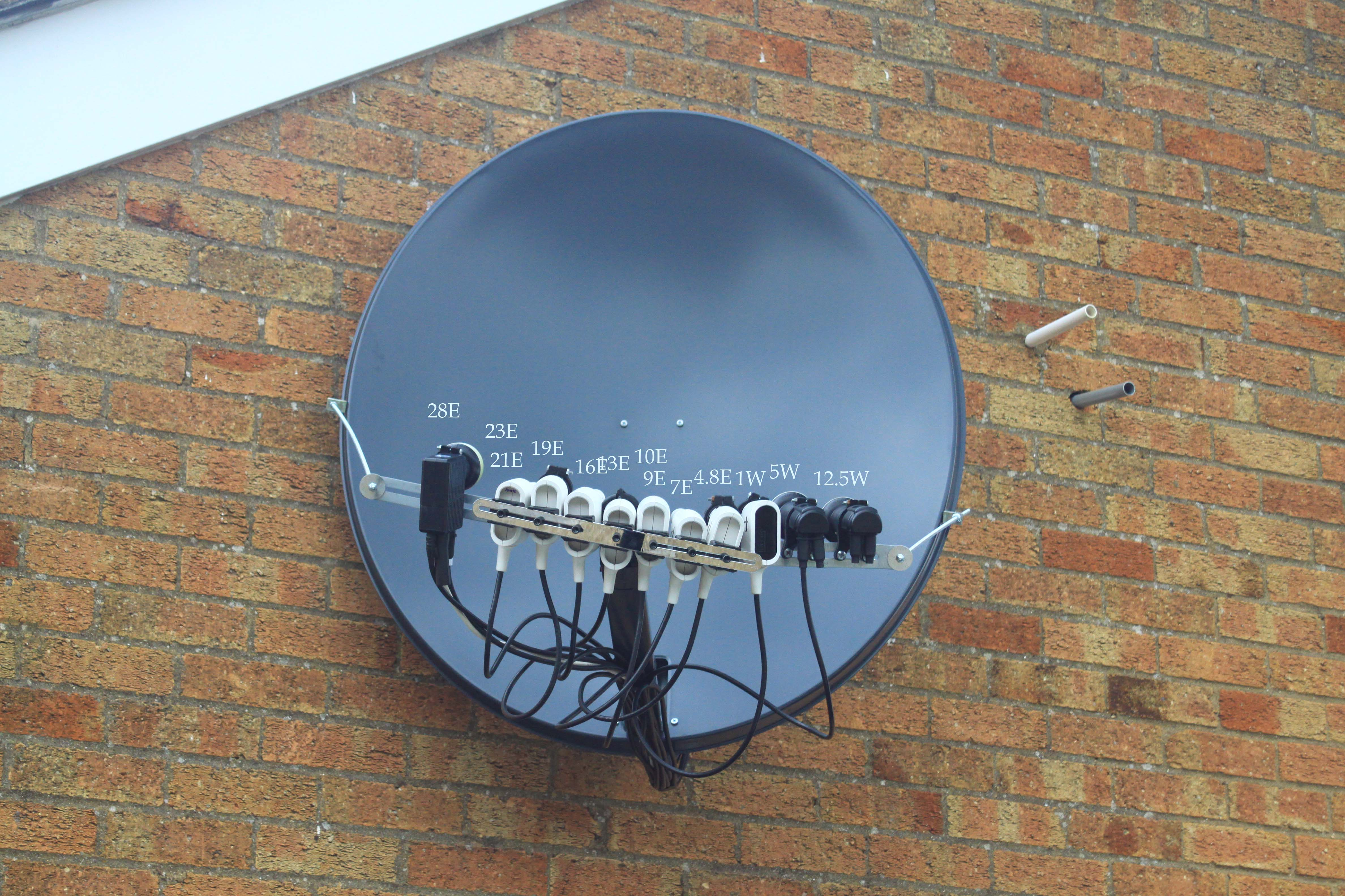 Temporary set up using single narrow invertos and icecrypt lnbs. Notice the adjustable rods i've added to support the weight of the lnb arms. Pointing at hotbird 13E you may have noticed.